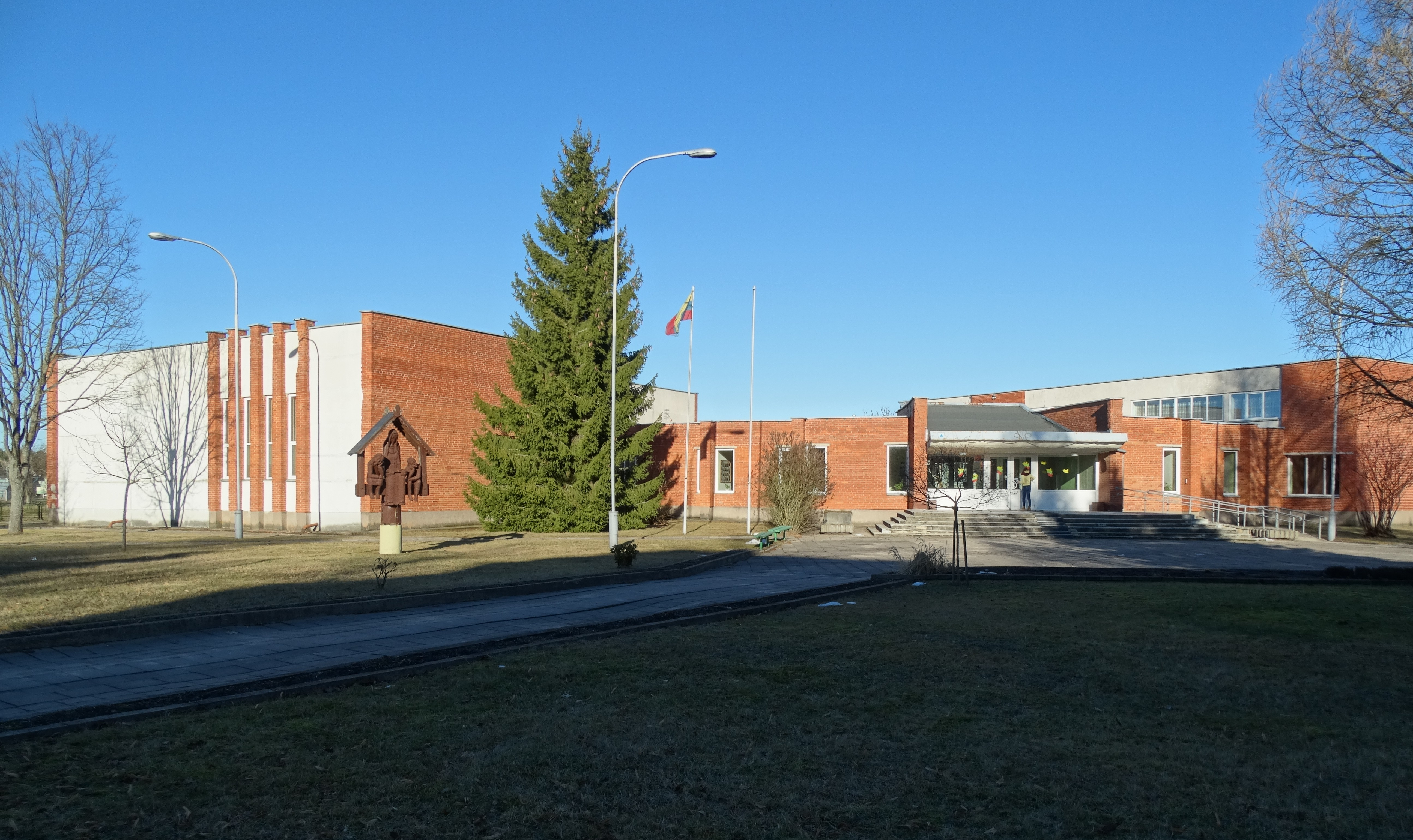 School, Viečiūnai, Druskininkai Municipality, Lithuania